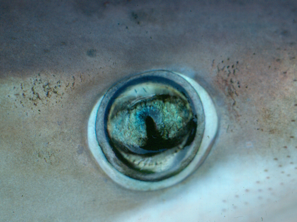 Night shark (Carcharhinus signatus) eye